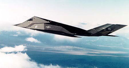 Lockheed F-117A in flight